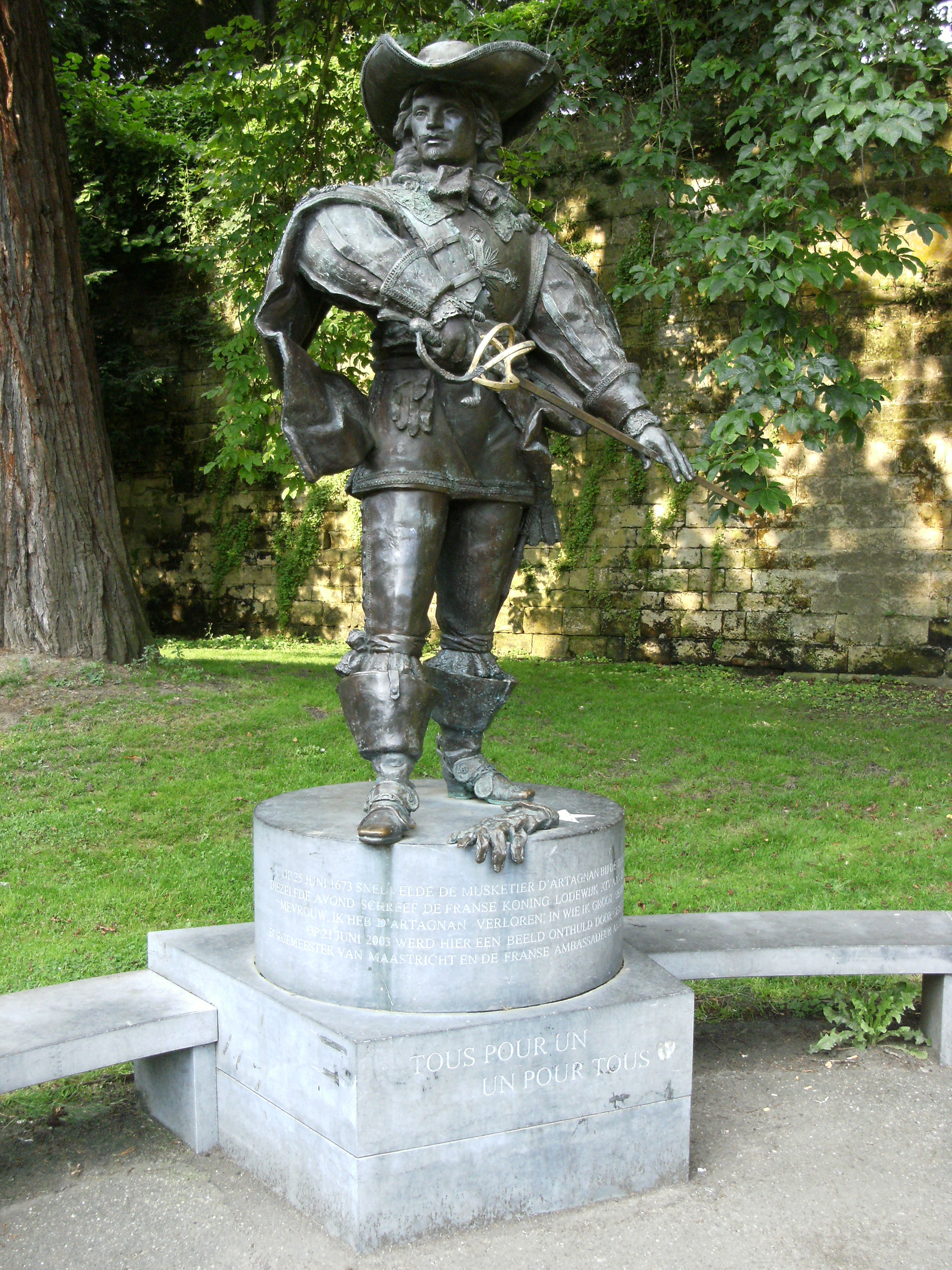 Statue of d'Artagnan in Aldenhofpark, Maastricht.